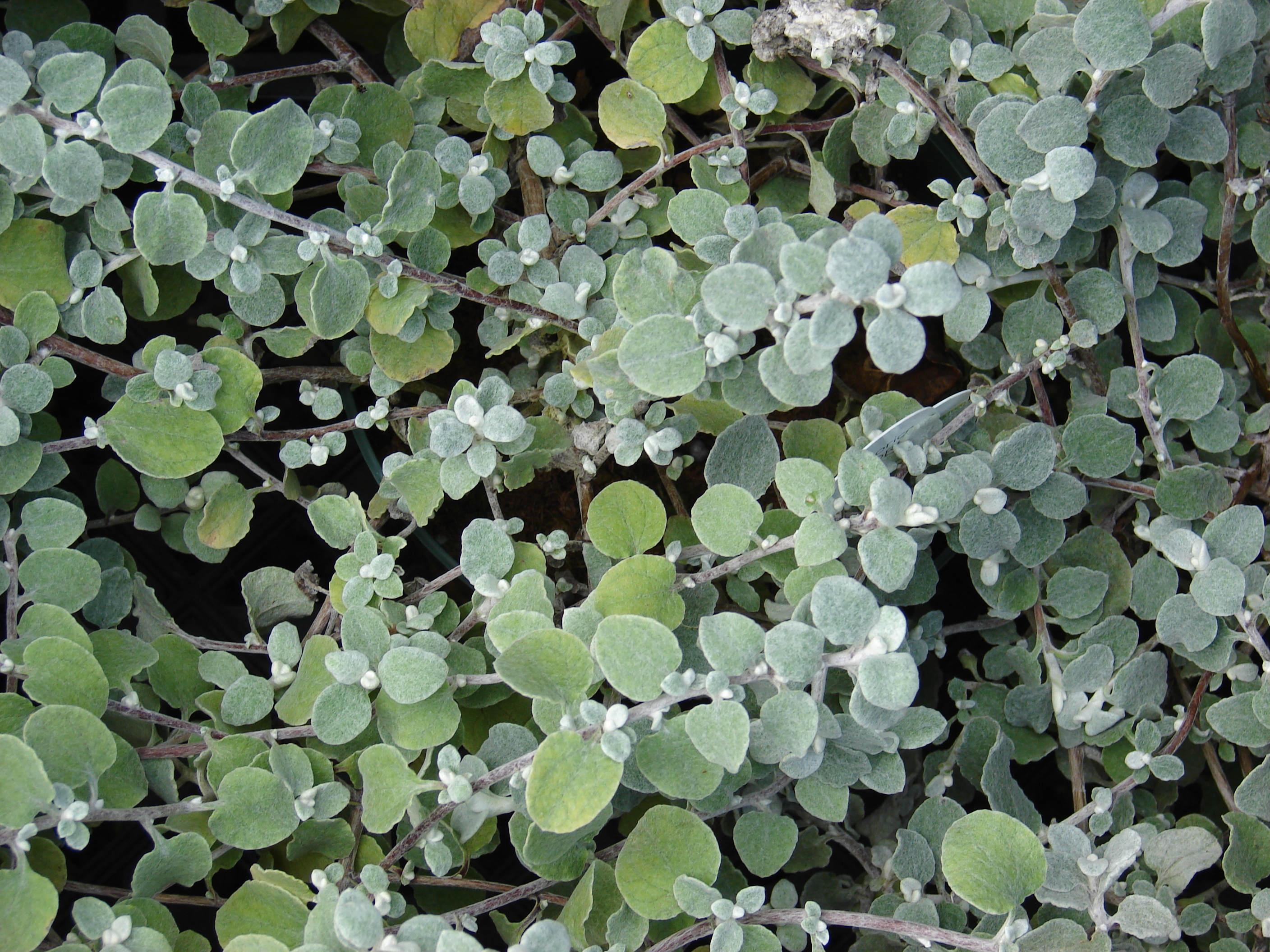 Helichrysum petiolare (habit). Location: Maui, Kula Ace Hardware and Nursery